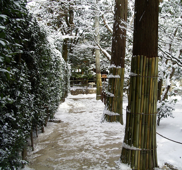 Ginkakuji-temple in a snowy day, Kyoto, Japan. The Sugi trees are covered with bamboo, so the trees are protected from winter coldness and snow. 竹で寒さから保護された杉の木。京都・銀閣寺で撮影。